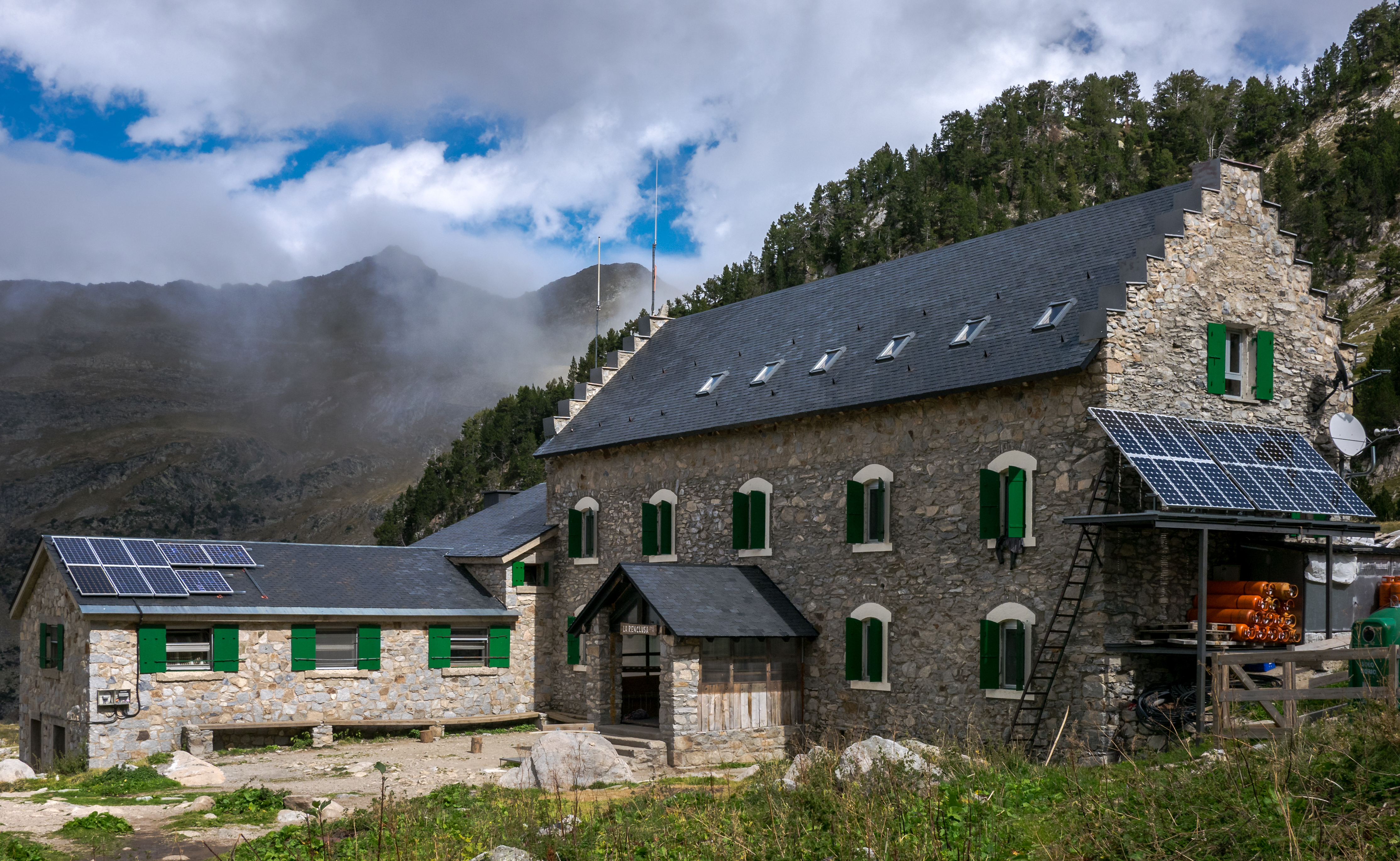 La Renclusa mountain hut in the Maladeta Valley. Huesca, Aragon, Spain